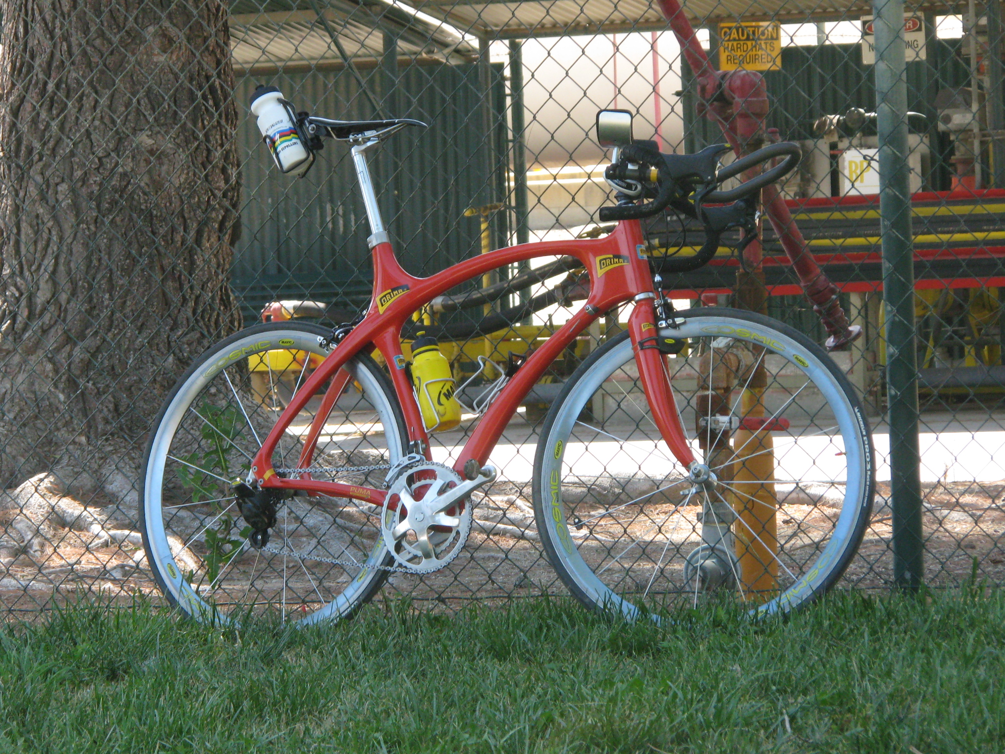 A Corima Puma bicycle frame, with various French components, including Mavic Mektronic shifters and Mavic Cosmic wheelset.